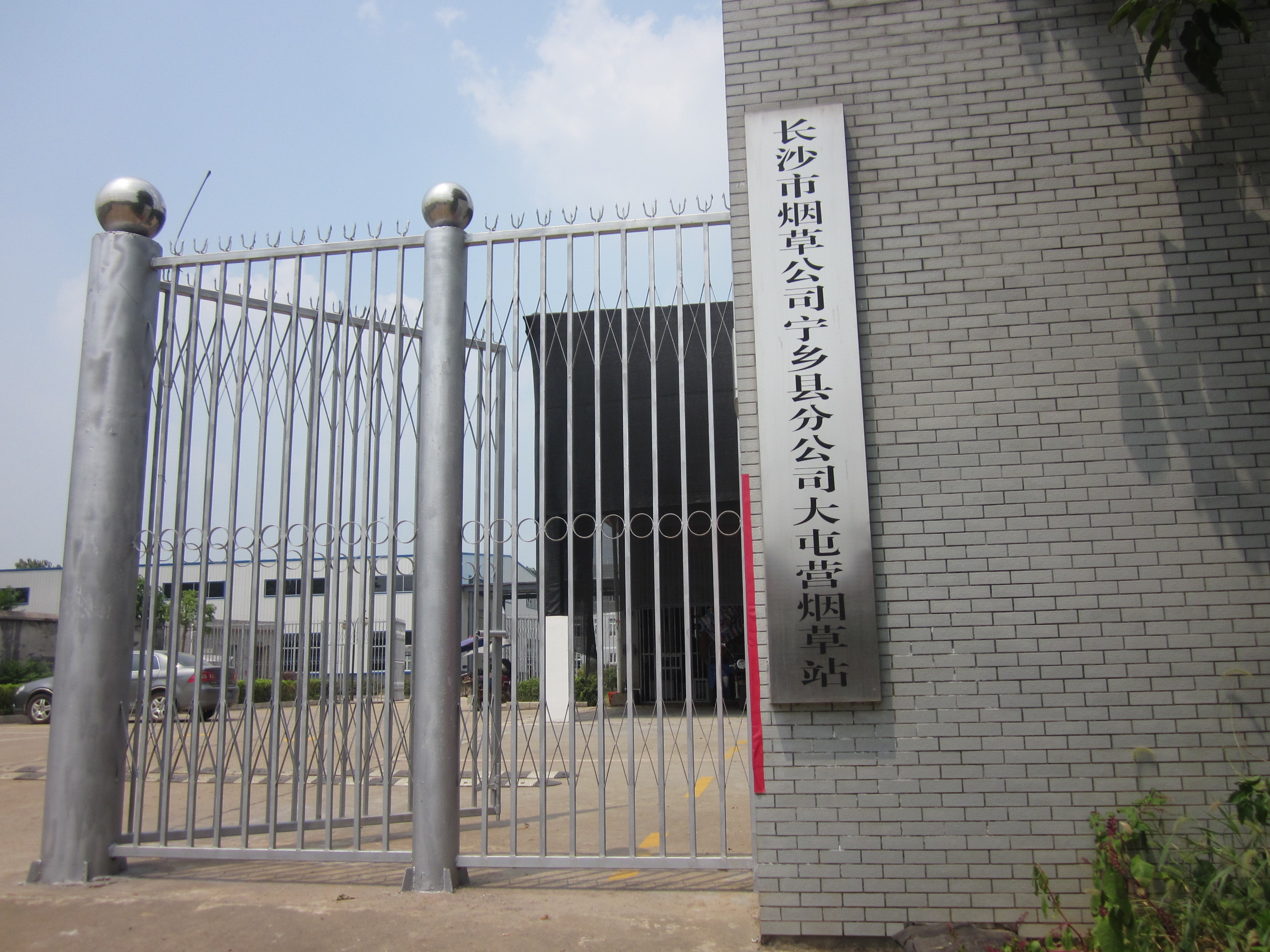 Datunying Township (simplified